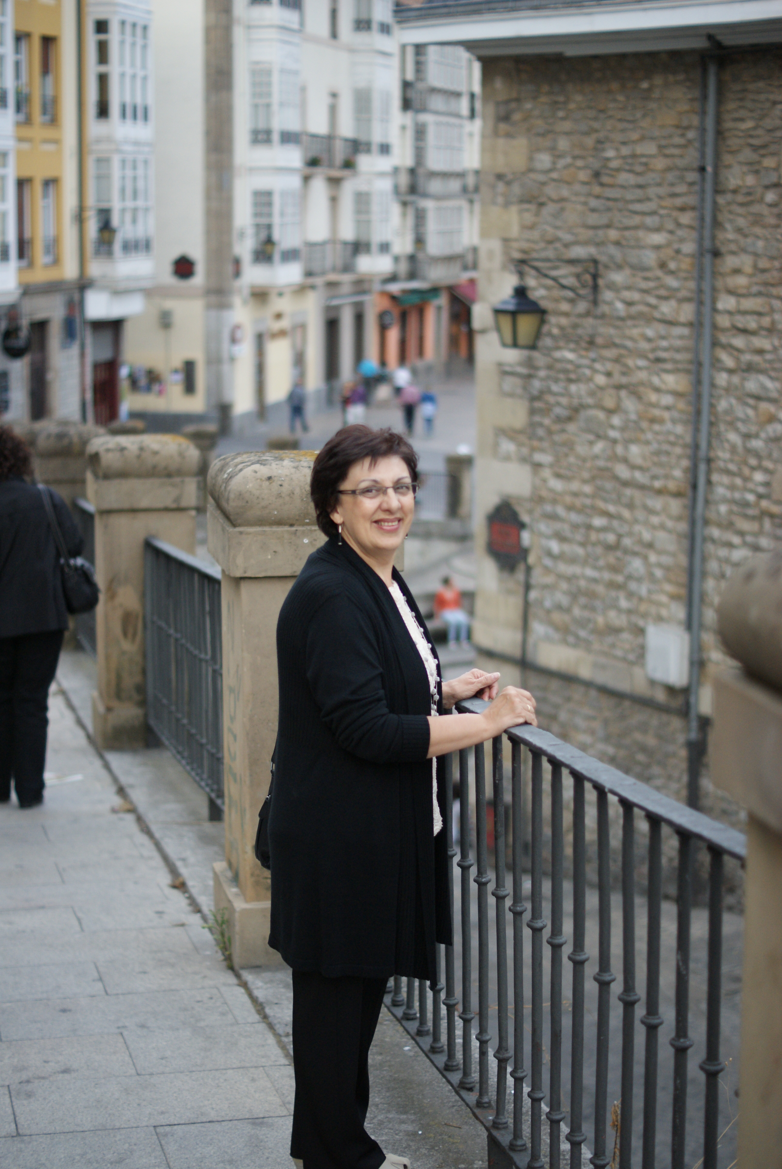 Laura Marinas en Vitoria-Gasteiz